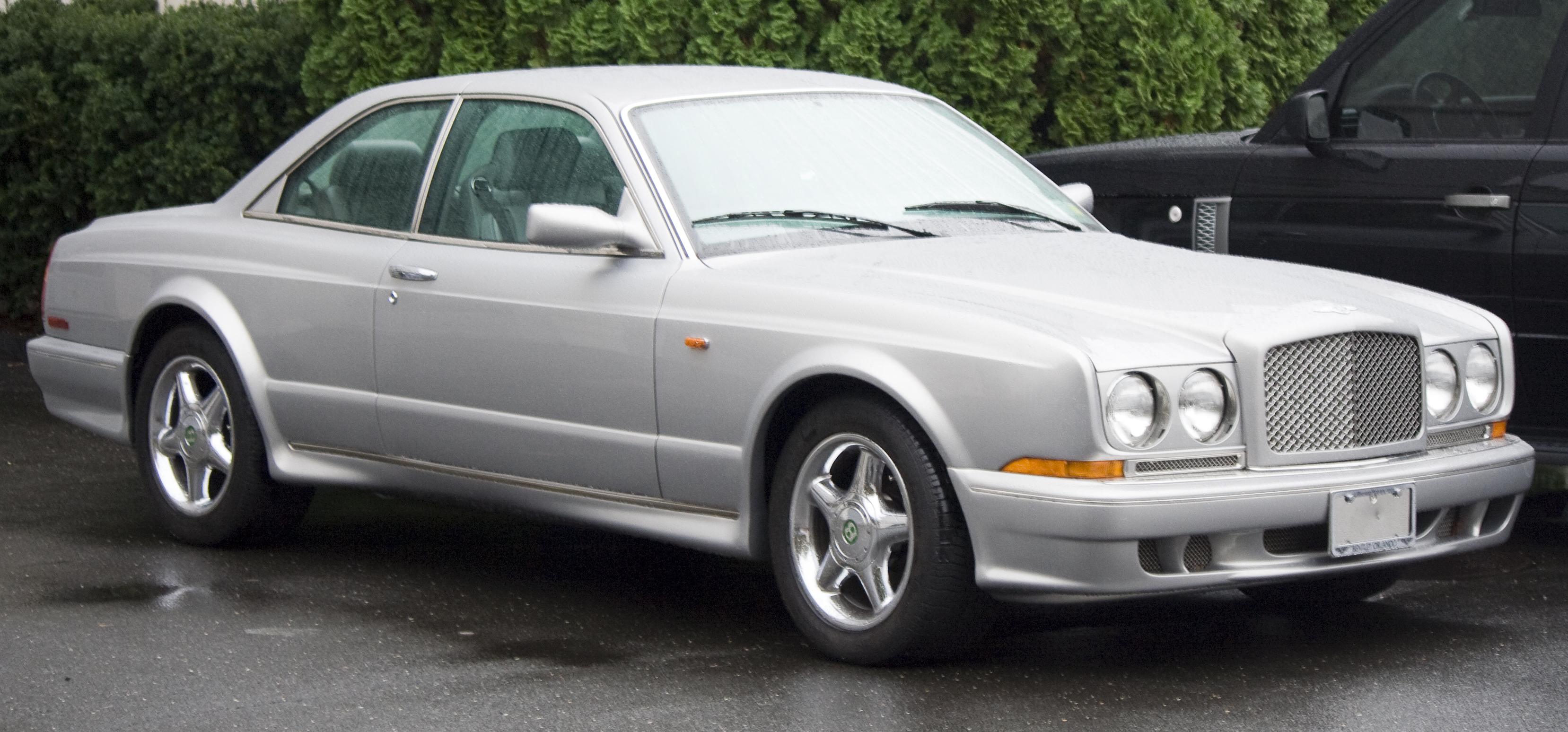 2000 Bentley Continental R. Looks like a Mulliner, with widened rear fenders and sideskirts, sporty wing mirrors and front air dam. It does lack the side vents, though.